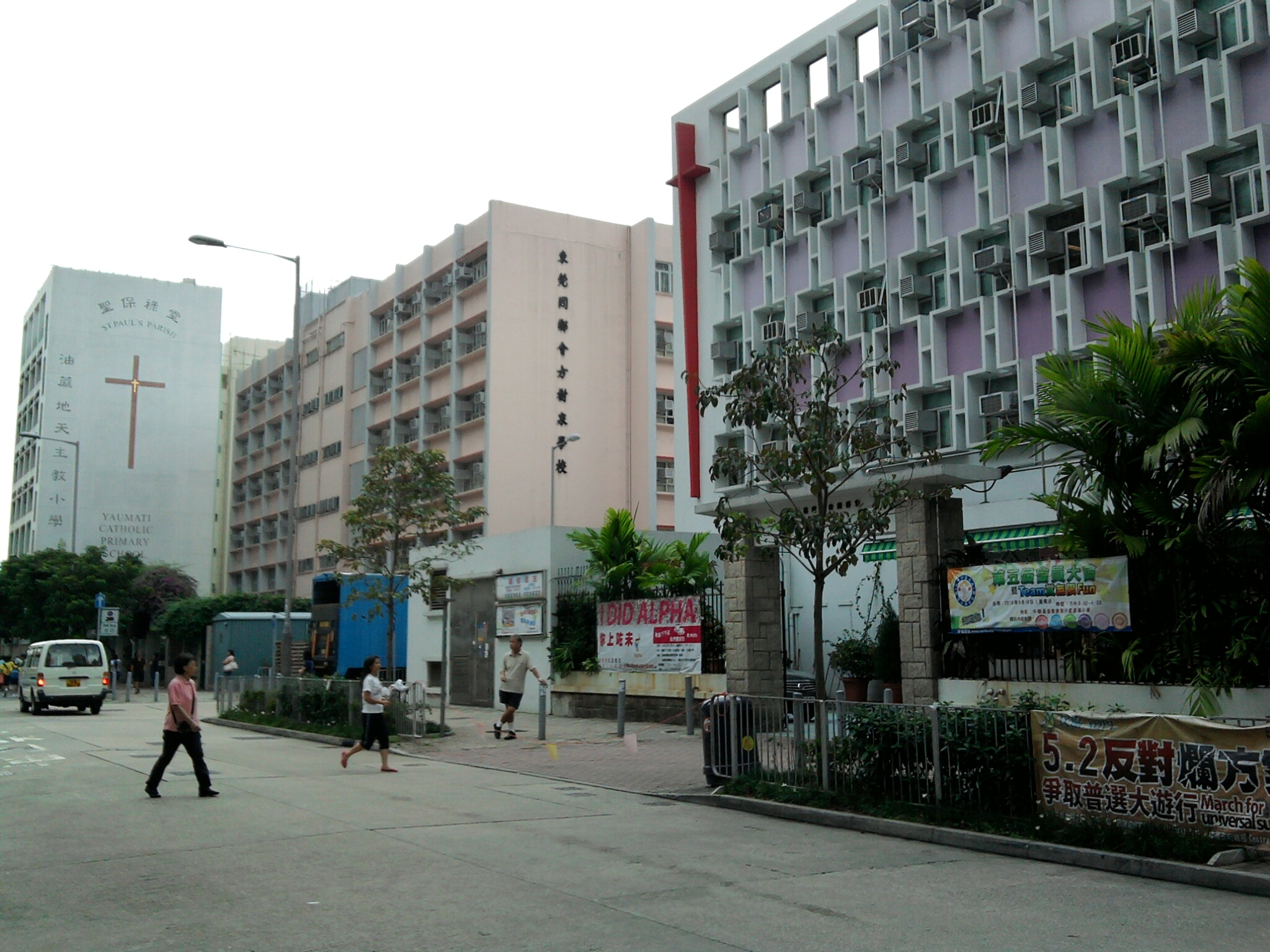 Tung Kun Street